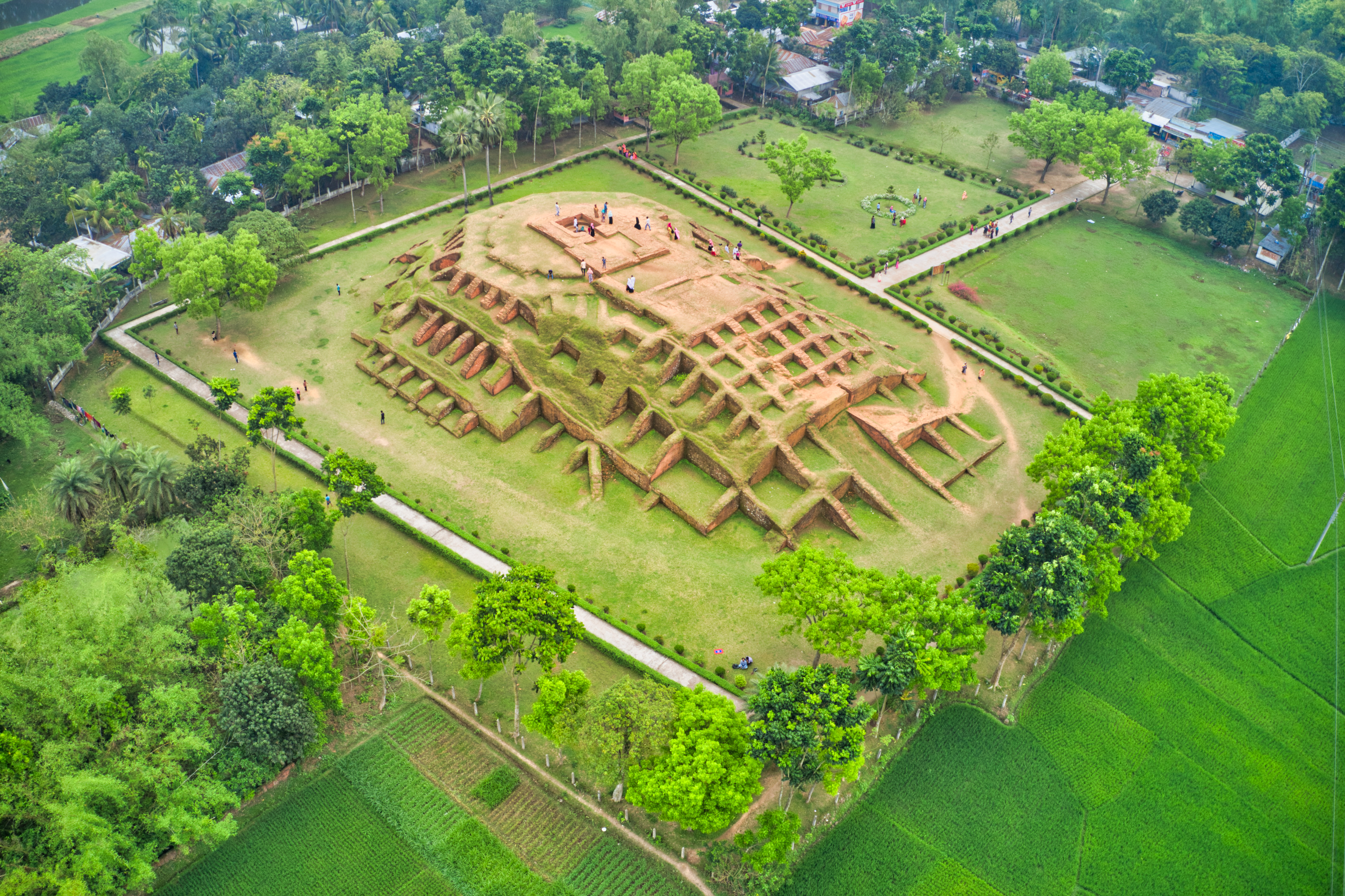 Gokul Medh, one of the Archaeological sites in Bogra district of Bangladesh.